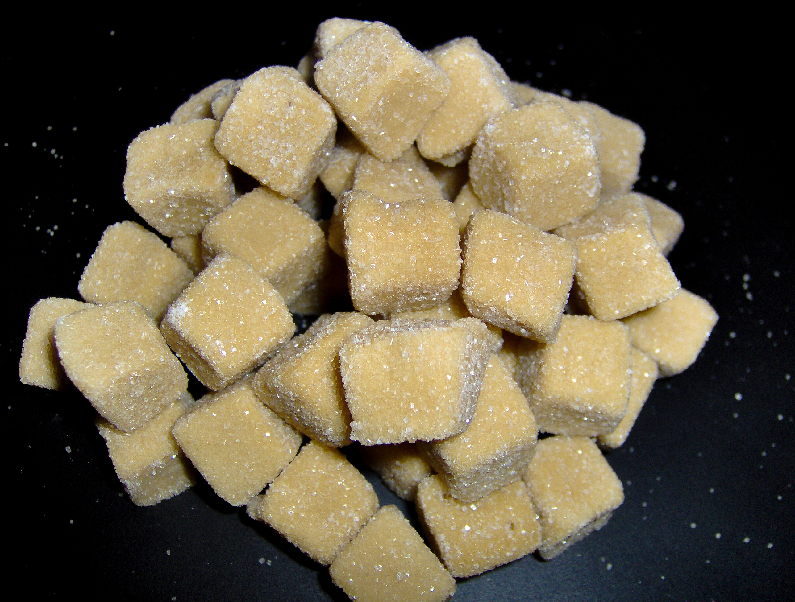 Liquorice bricks